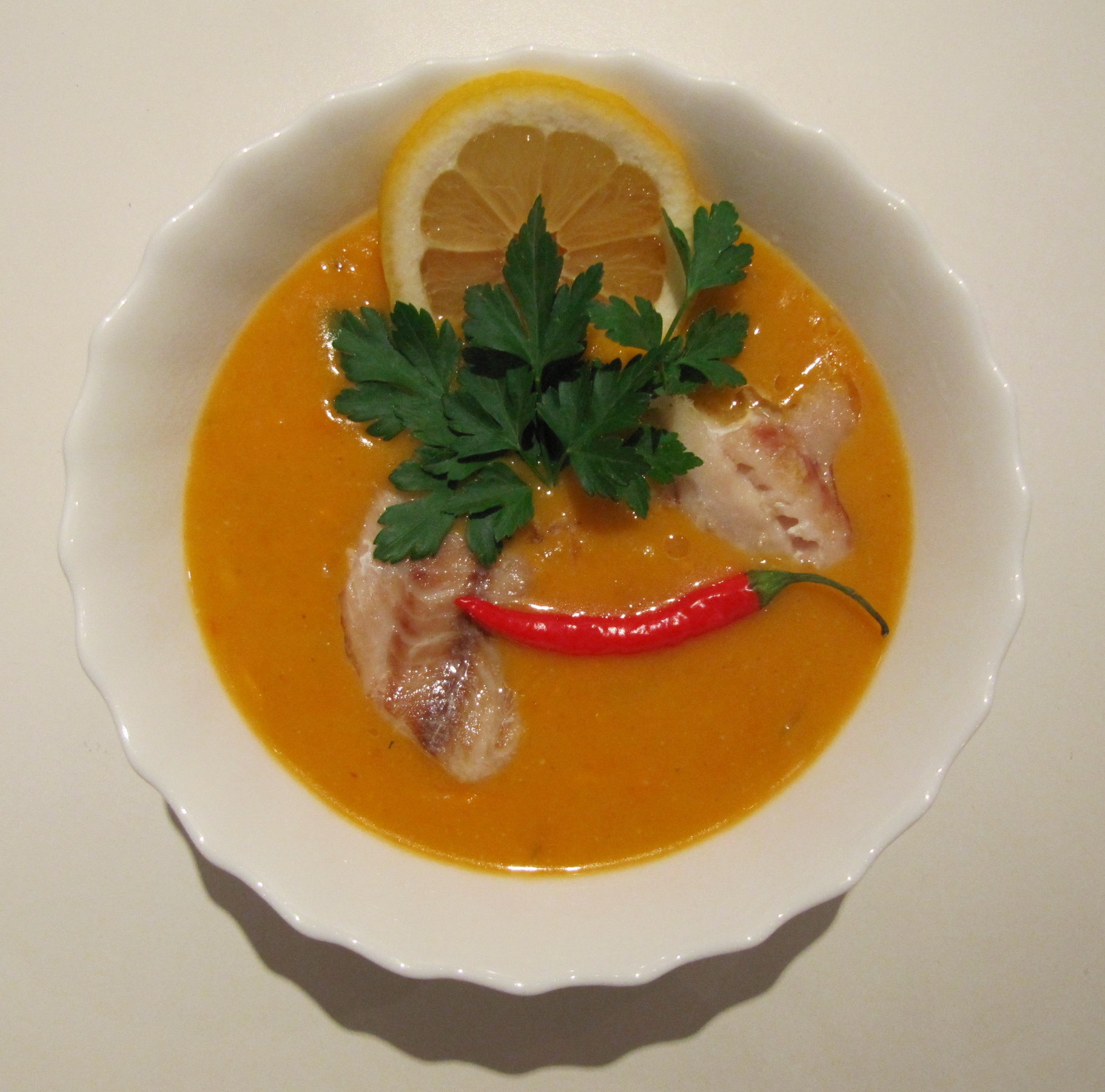 Fish_Mulligatawny_Soup_-_Pollack_with_Yam_Sweet_Potatoes